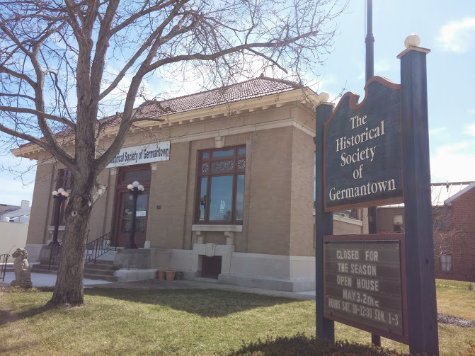 Former Carnegie Library